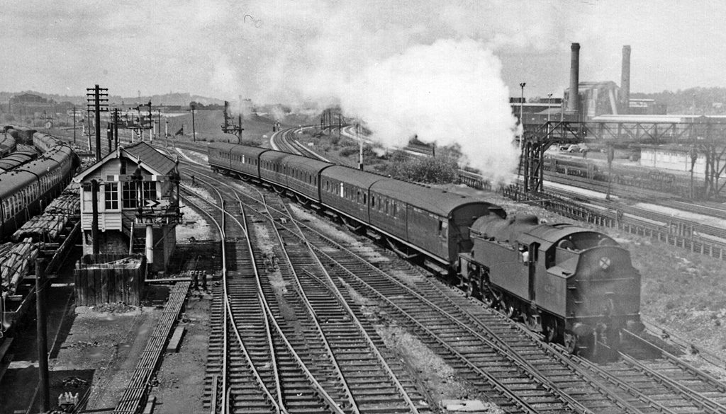 Up empty Cup Final special local at Neasden Junction. View westward, towards Northolt Junction, Harrow-on-the-Hill - and Wembley Stadium (from which the train is coming onto the ex-GC main line into Marylebone. The view is in the opposite direction and on the same day as TQ2185 : Marylebone - Wembley Stadium special Cup Final local train passing Neasden Station. On the left is Neasden Junction Box and Sidings - where one of the long-distance Cup Final Specials is parked; the LT Metropolitan/Bakerloo Lines are over on the right. The train is headed by LMS Stanier 4P 2-6-4T No. 42437.